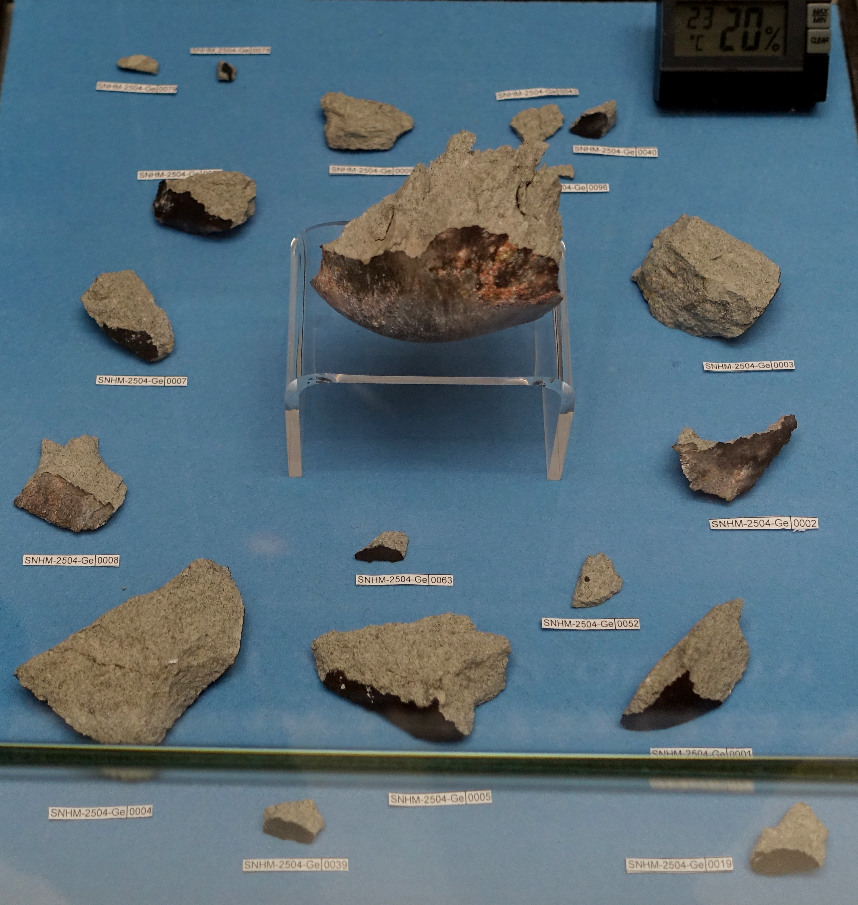 Exhibit in the Naturhistorisches Museum, Braunschweig, Germany.